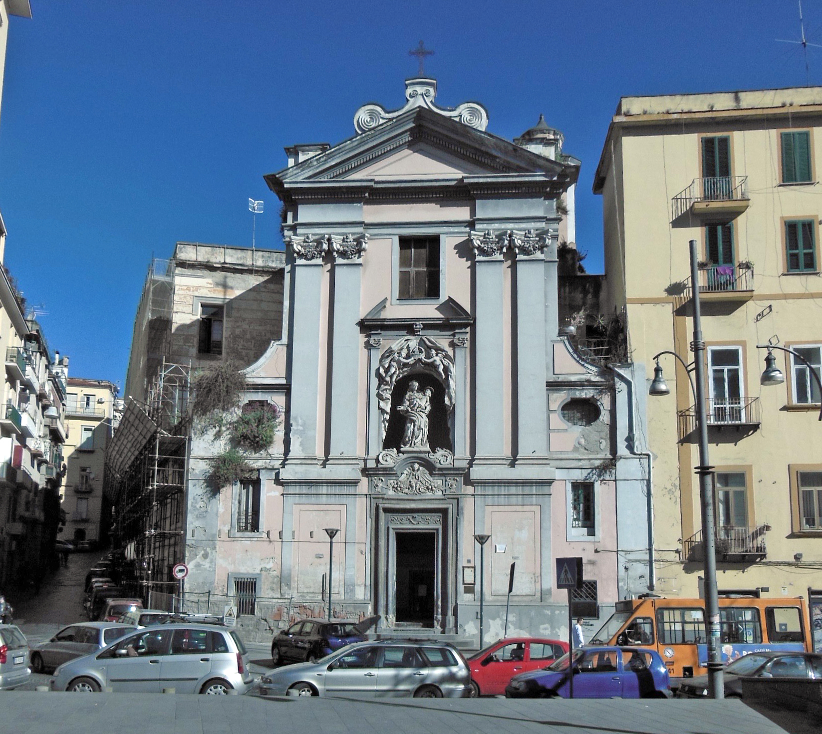 Naples, church of Santa Maria del Rosario alle Pigne in piazza Cavour, front